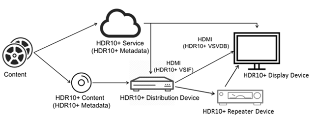 HDR10+ OTT workflow diagram